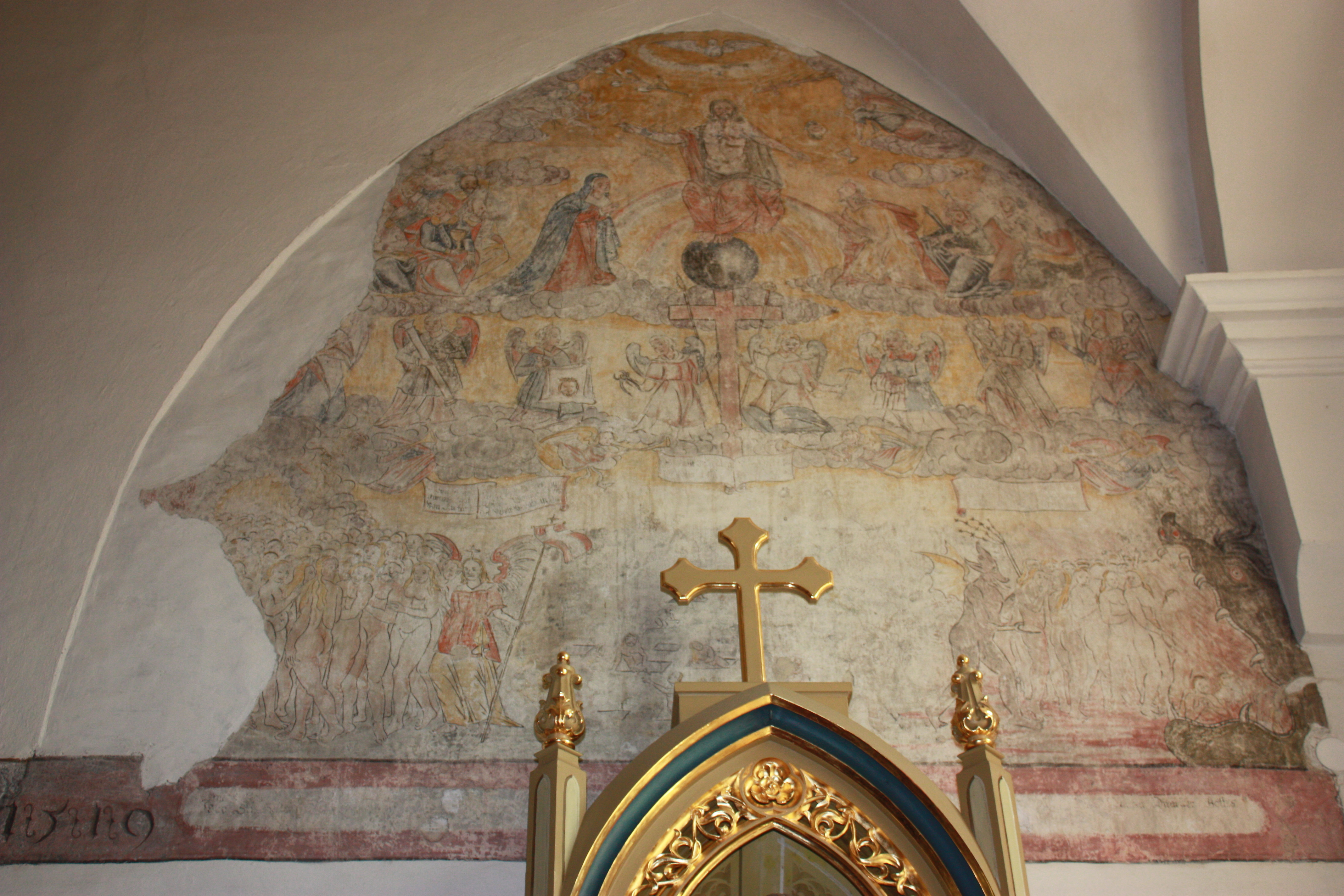 Parish church „Saint Laurentius“ - Last judgement Locality: Winklern Community:Winklern